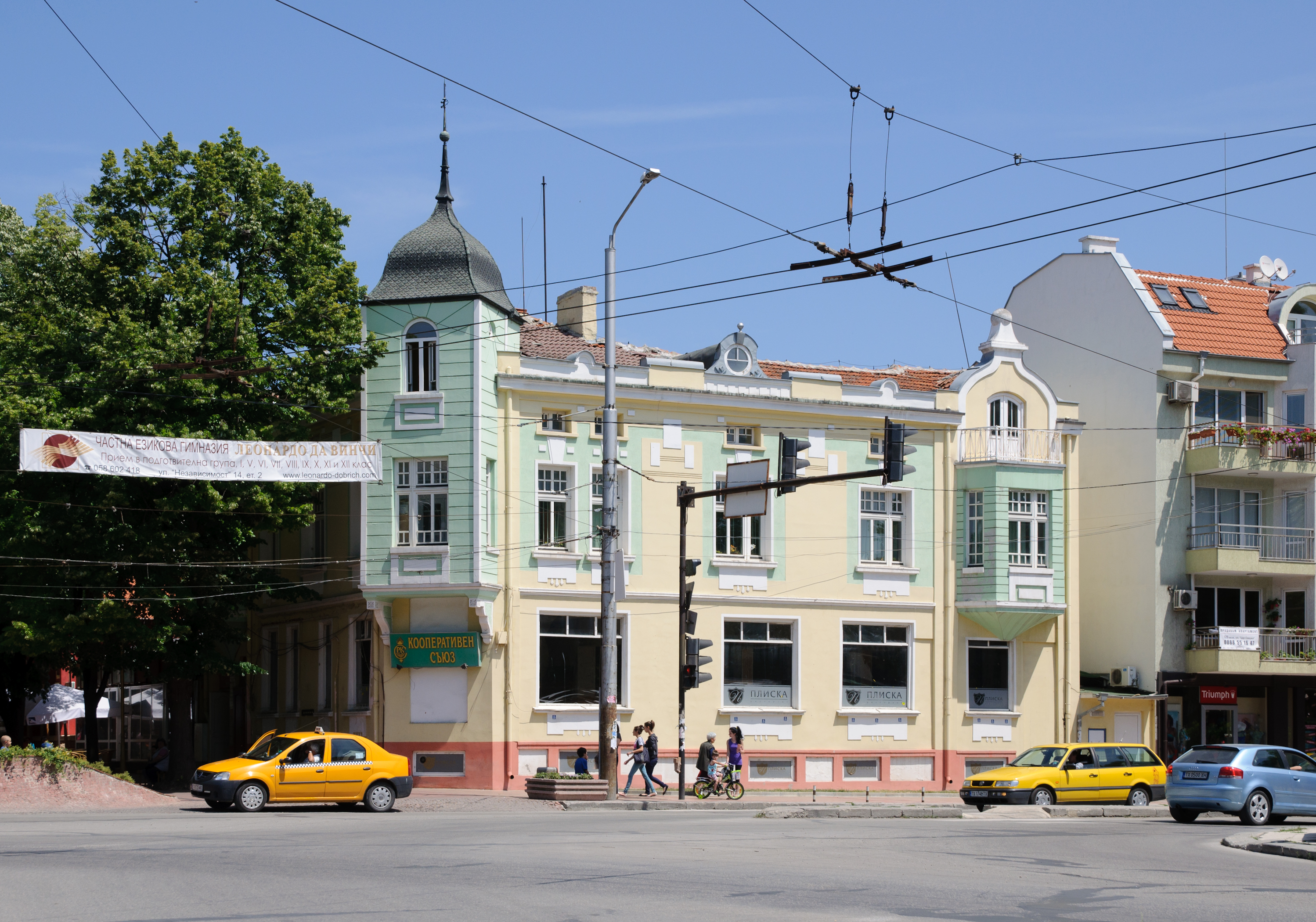 Old building on the main street in the city of Dobrich, Bulgaria.